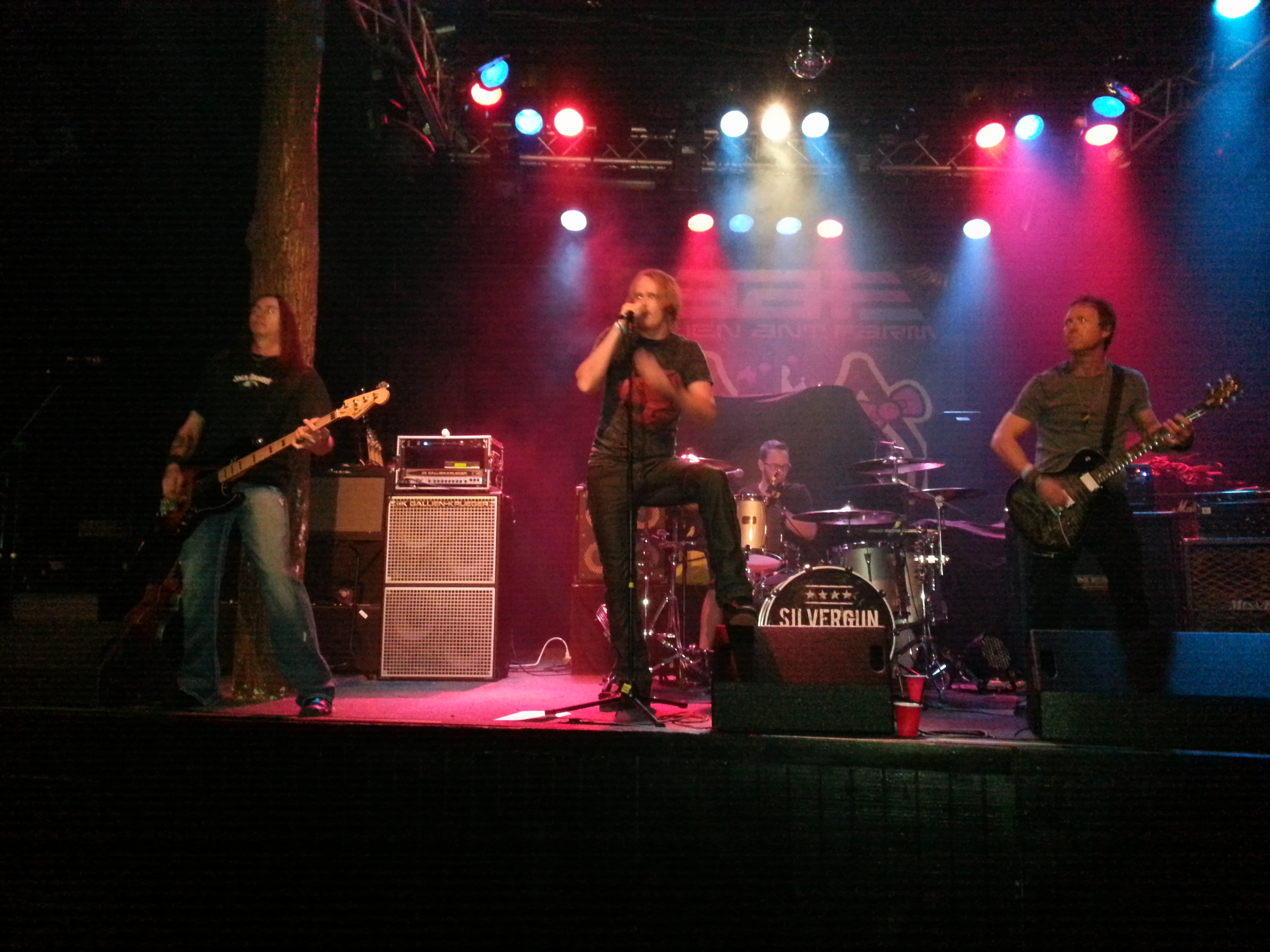 American rock band Silvergun from Dallas, Texas performing at Trees Dallas in 2014